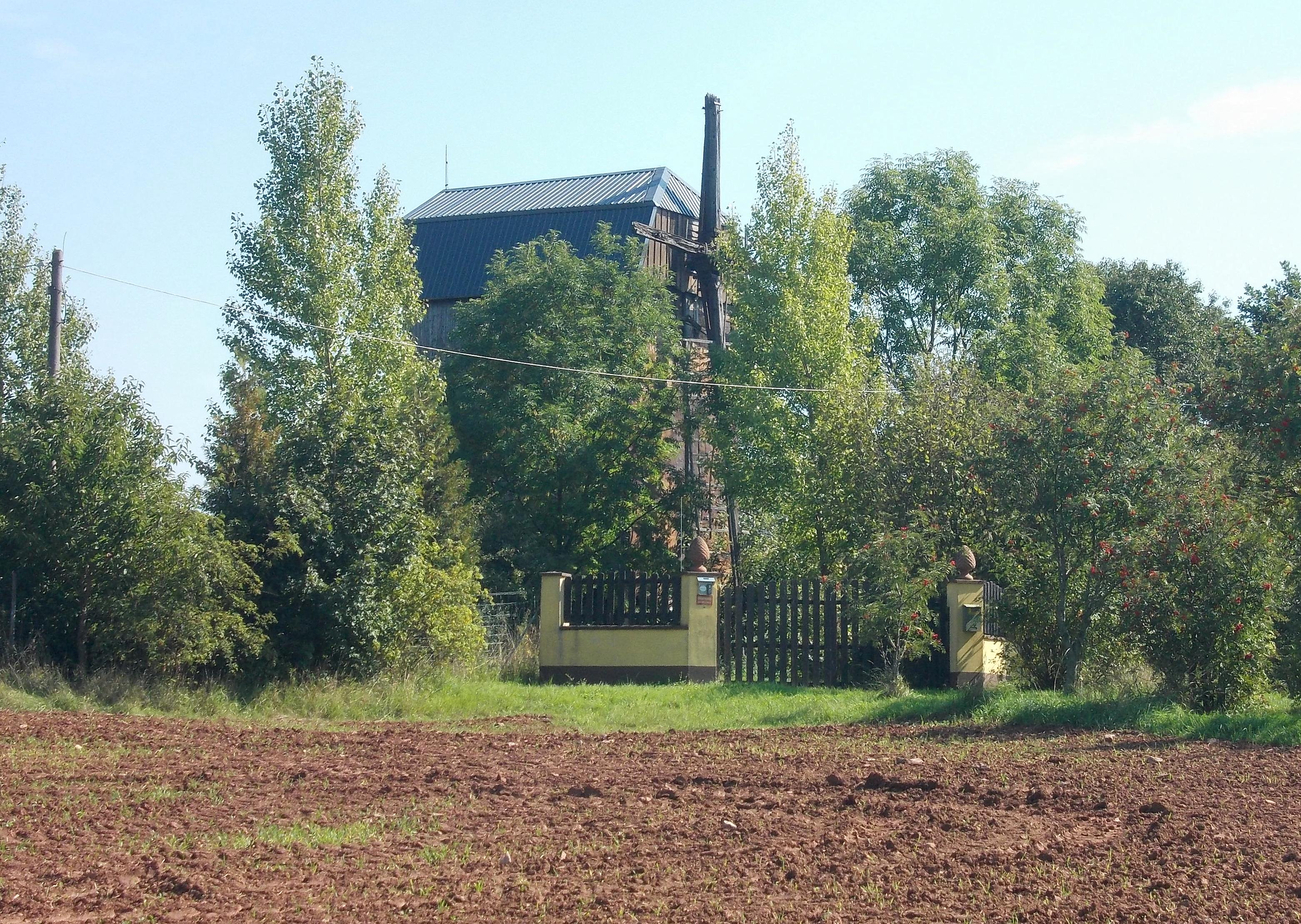 The post mill of Pölsfeld (Allstedt, Mansfeld-Südharz district, Saxony-Anhalt)